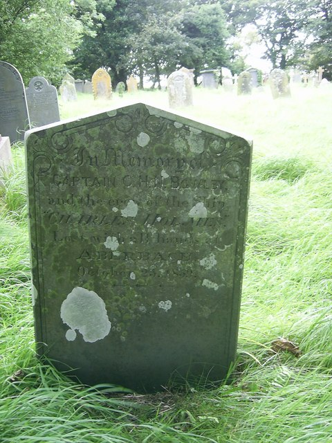 Captain C.H.N.Bowlby, Granston Churchyard Captain Bowlby and all aboard ship were drowned near Aberbach on October 25th 1859. Captain Charles Halkett Norborn Bowlby aged 35 years, third son of Captain Thomas Bowlby, R.A., Bishopwearmouth, Durham, was captain of the 880 tons North American ship 'Charles Holmes' that set sail from Liverpool, the day before the storm, across the Atlantic Ocean for Mobile, near New Orleans. On board ship was a large crew of 28 together with a few passengers. The ship also contained a mixed cargo of coal, iron, tools, an assortment of crockery, clothing and meat. The ship during the ferocious storm was driven towards a cove near Aberbach, where it capsized. The majority of the bodies were recovered from the cove, Porth Dwgan, near Aberbach, but some were recovered from Aberbach and Abermawr beaches, together with the wreckage from the ship. A number of newspapers reported the shipwreck. The death of Captain C. H. N. Bowlby was reported in the November 5th 1859 edition of 'The Times' newspaper. The 'Liverpool Mercury' newspaper reported Mr.John Cross, Chief Officer and Mr.John O'Brien, carpenter, aged 26 years as drowned on board the ship 'Charles Holmes'. The bodies washed ashore were buried in the grave at Granston churchyard. Reference : Shipwrecks Around Wales. Volume 2. (1992). Tom Bennett.